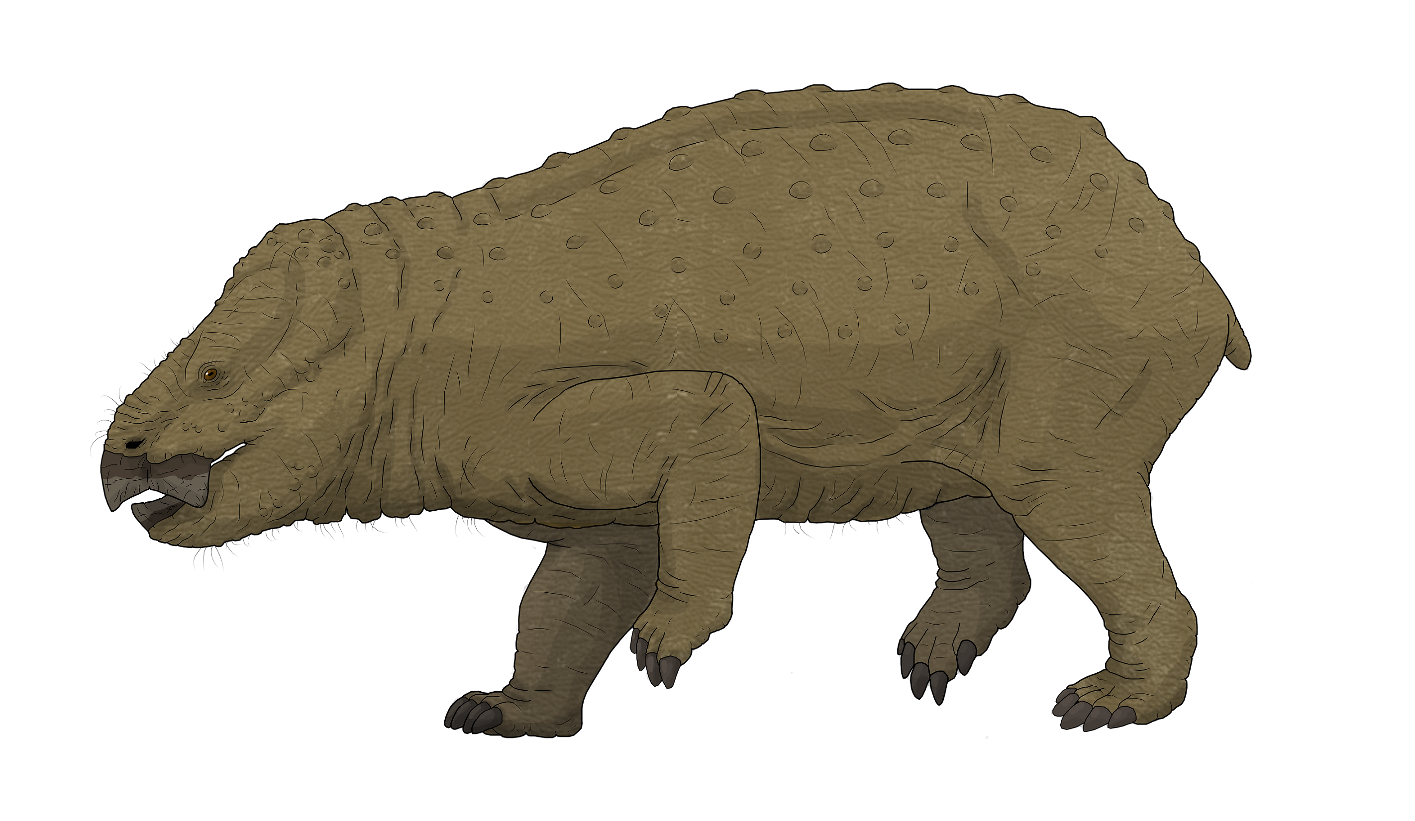 Reconstrucion of Lisowicia bojani based on the Tomasz Sulej and Grzegorz Niedźwiedzki paper about the animal, and the skeletal reconstruction presented in it.